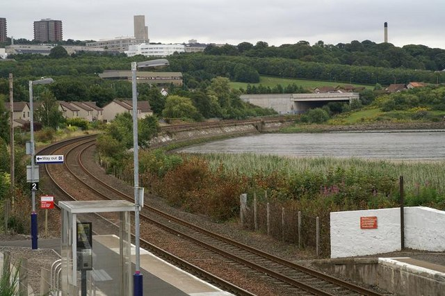 Invergowrie railway station